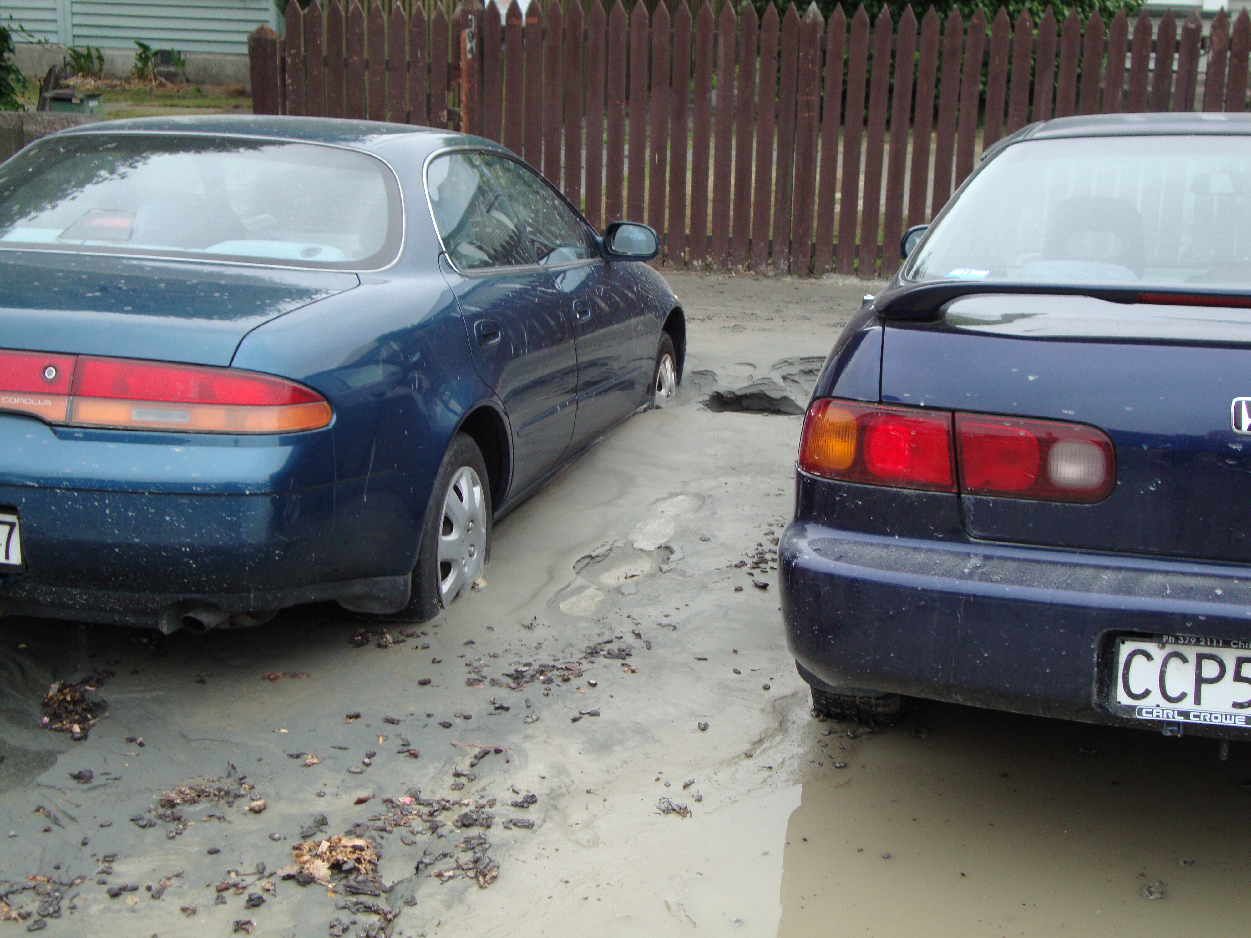 Liquefaction in Peterborough St (west of Madras St), central city, resulting in the ground emitting fine sand.